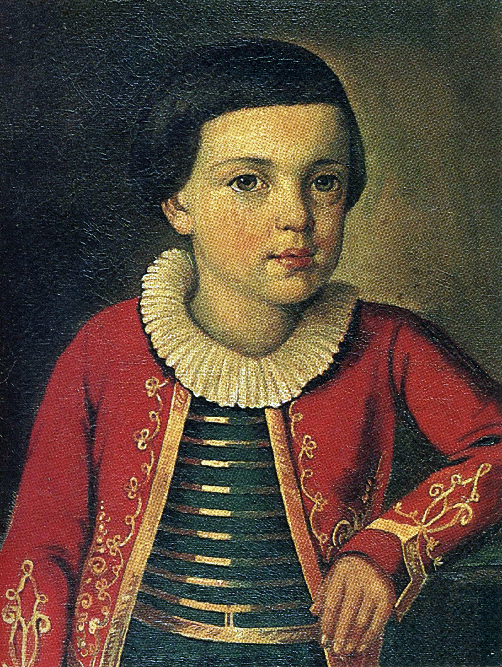 Russian poet Mikhail Yurievich Lermontov